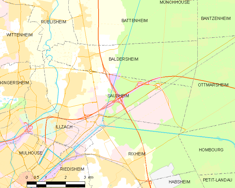 Map of French municipality